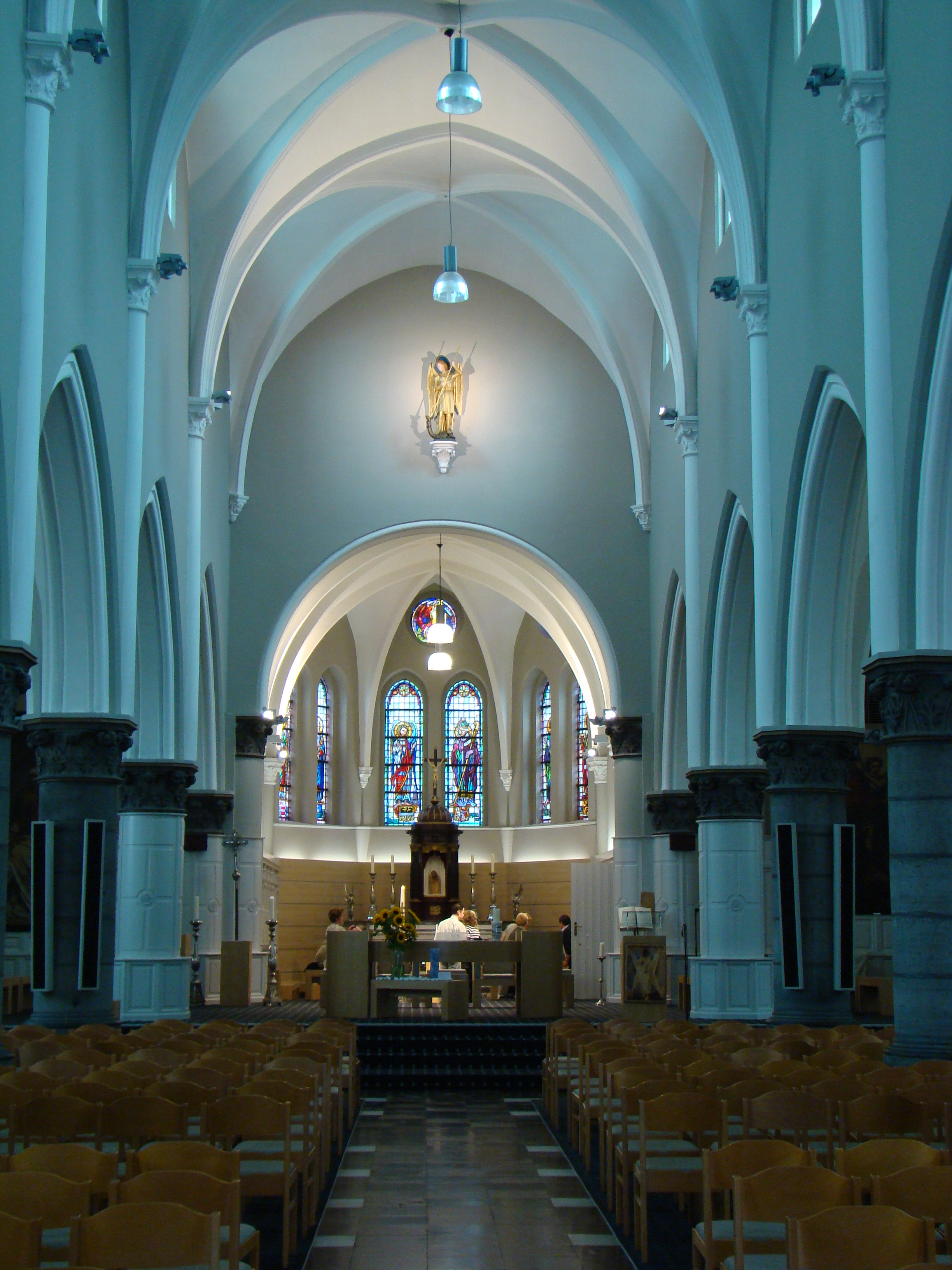 Sint-Michiels church Kuurne (West Flanders, Belgium)